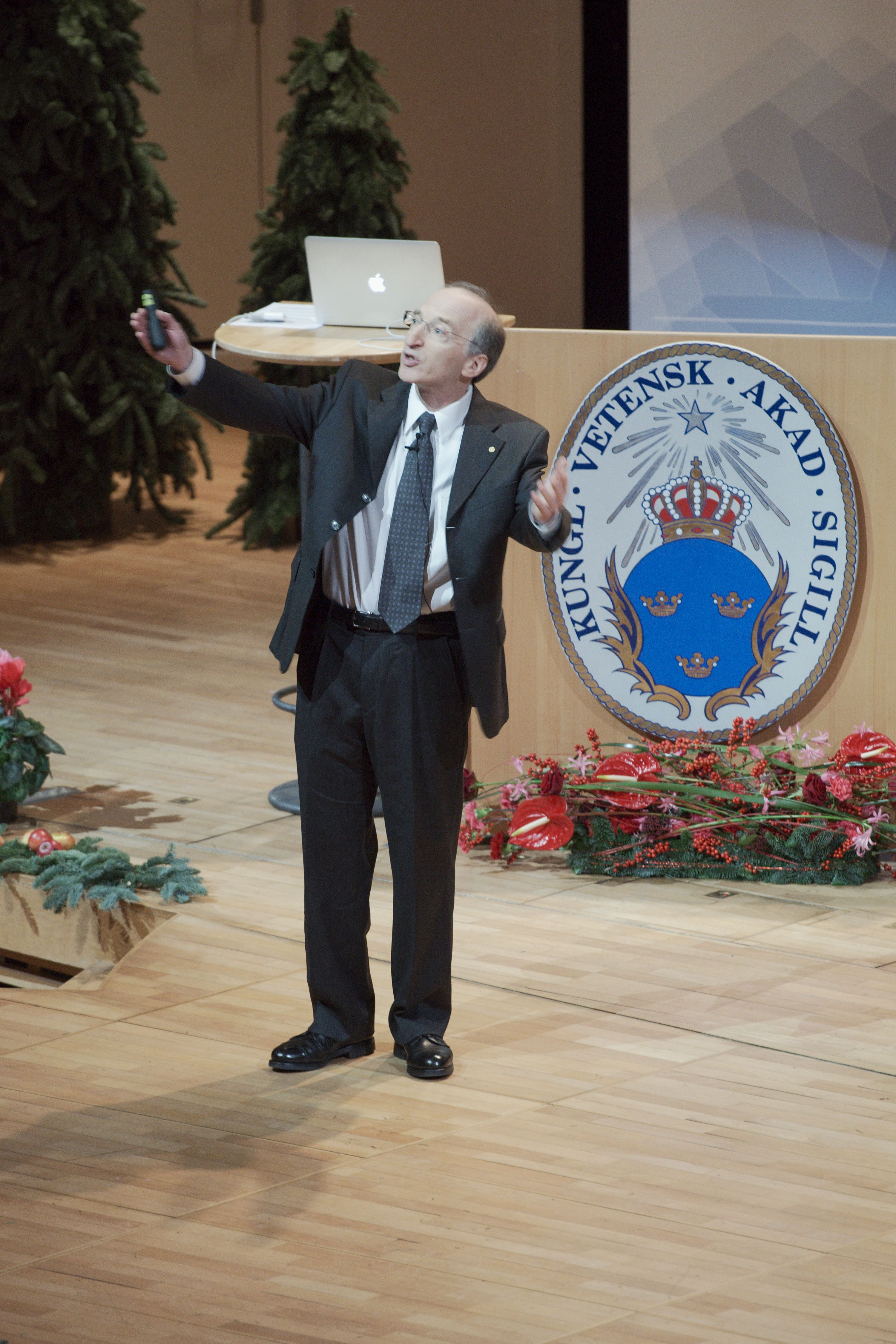 Nobel Prize 2011, Nobel lectures of the laureates of the Nobel prizes in chemistry and physics and the memorial prize in economic sciences at Aula Magna.